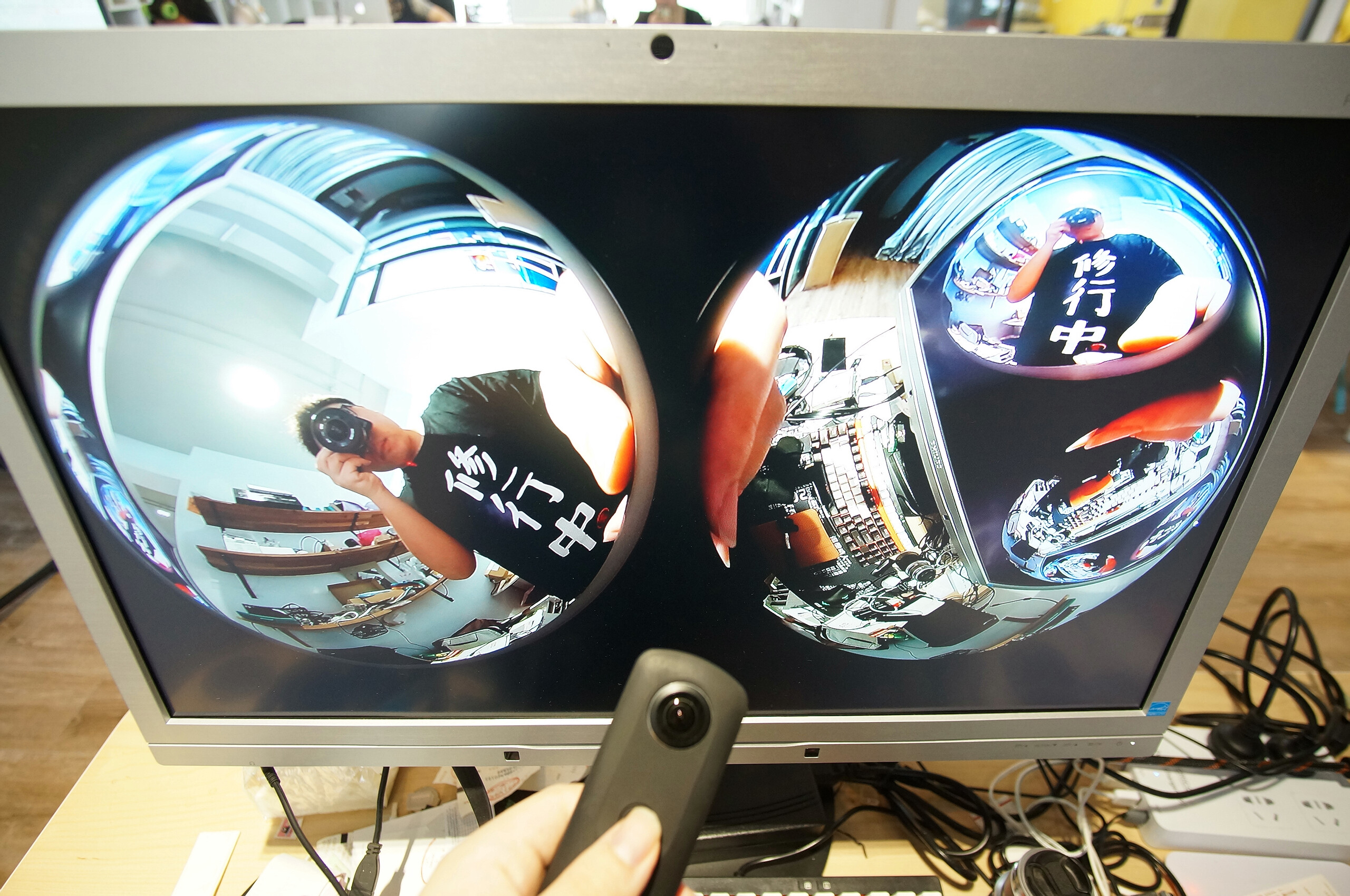 RICOH THETA S, running in Live Mode, HDMI directly output。No render, just two fisheye-lens' image.